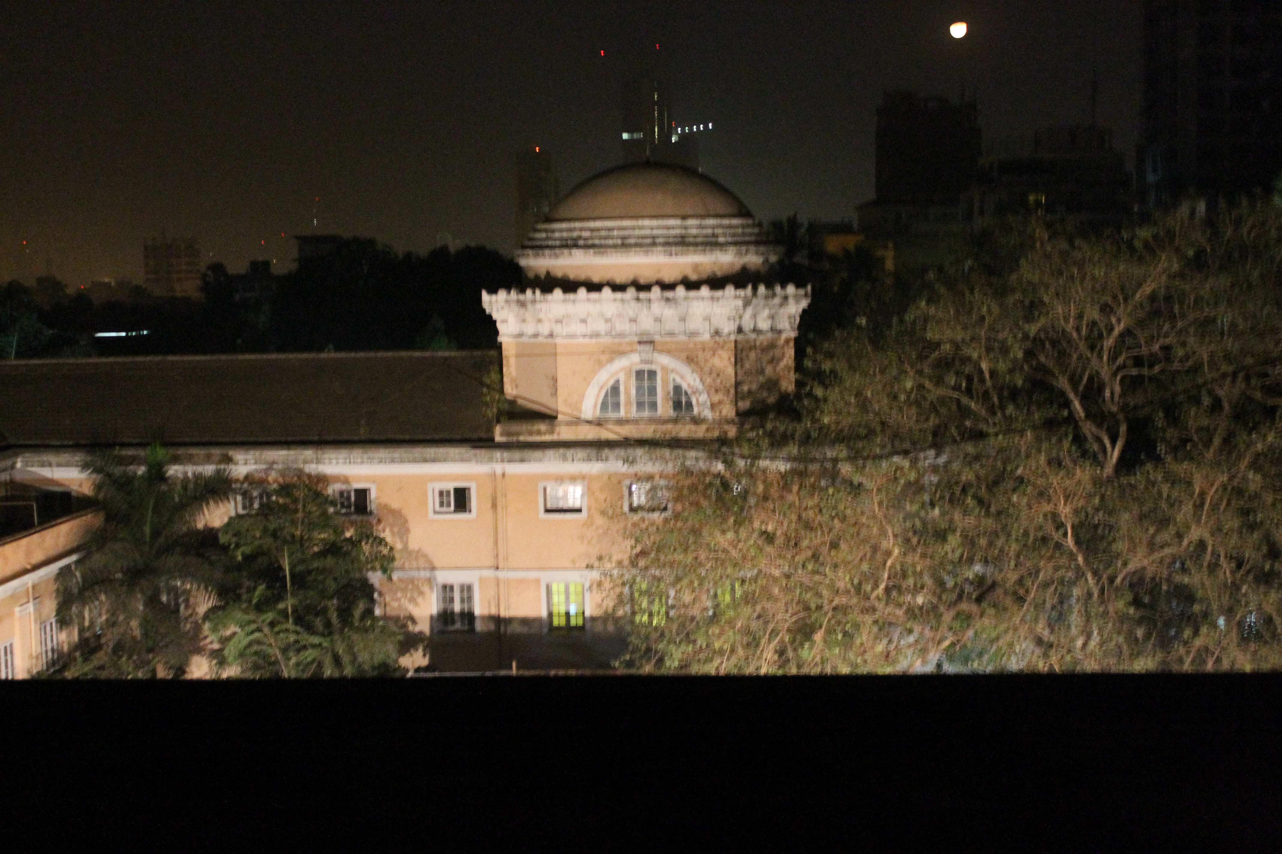 Dome of Veermata Jijabai Technological Institute, Mumbai at night